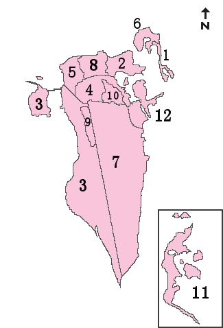 Map of the municipalities of Bahrain (which existed until 2002)